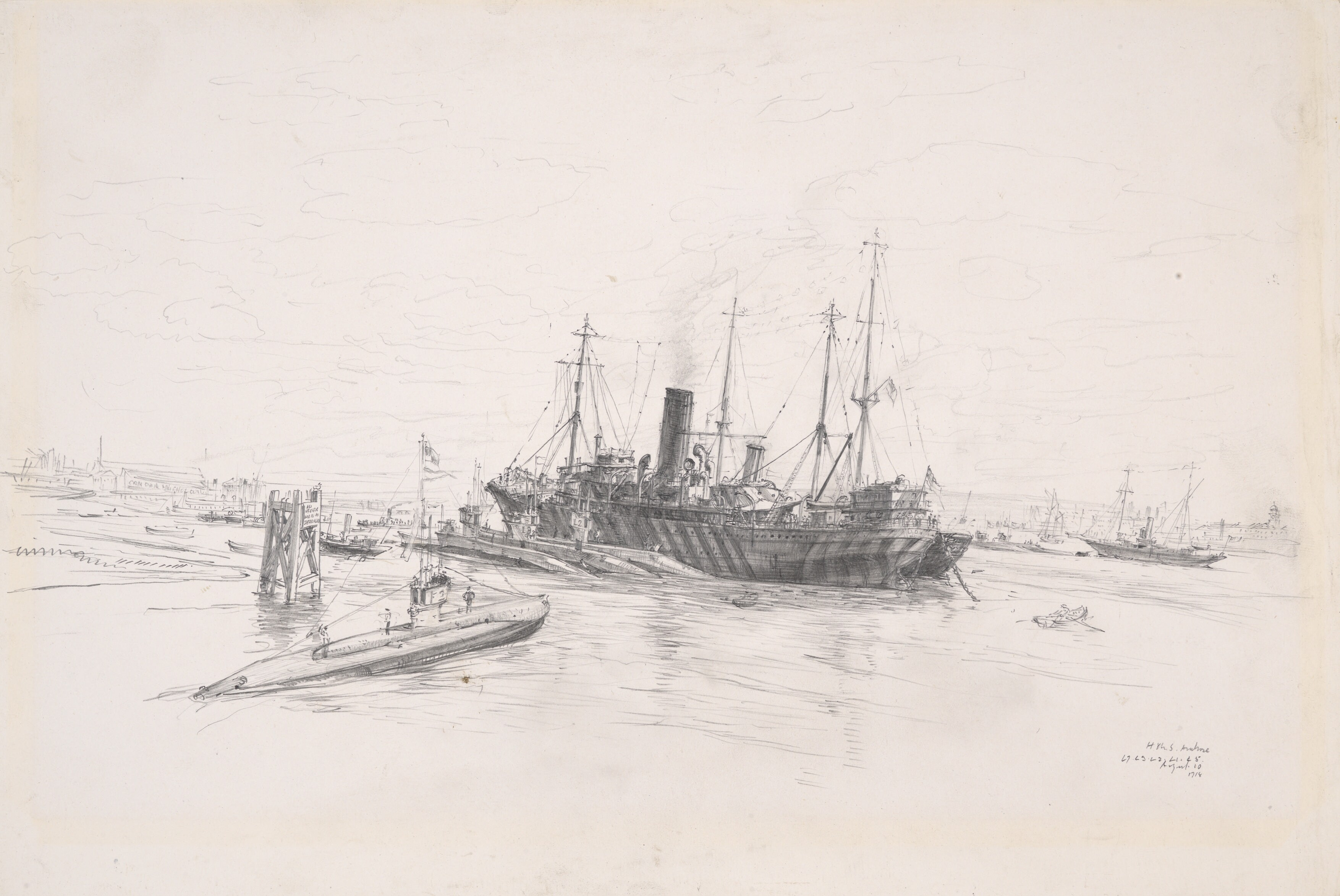 HMS Ambrose and Attached Submarines image: a view of an ex-merchant ship, dazzle-painted, anchored in a dock. Three submarines are alongside, and a fourth is seen broadside to port, with figures on its topside.